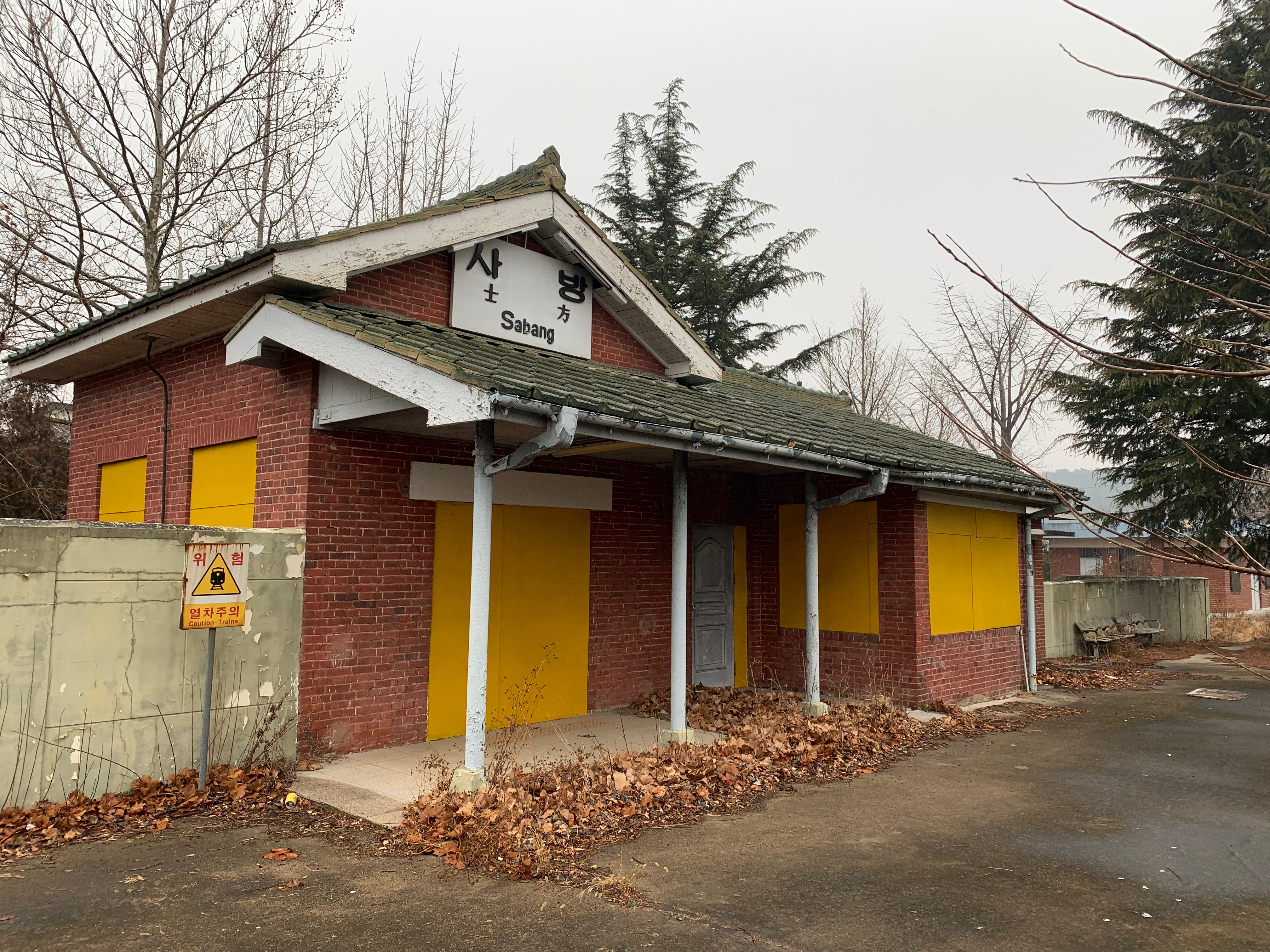 Sabang Station of Donghae line in Gyeongju